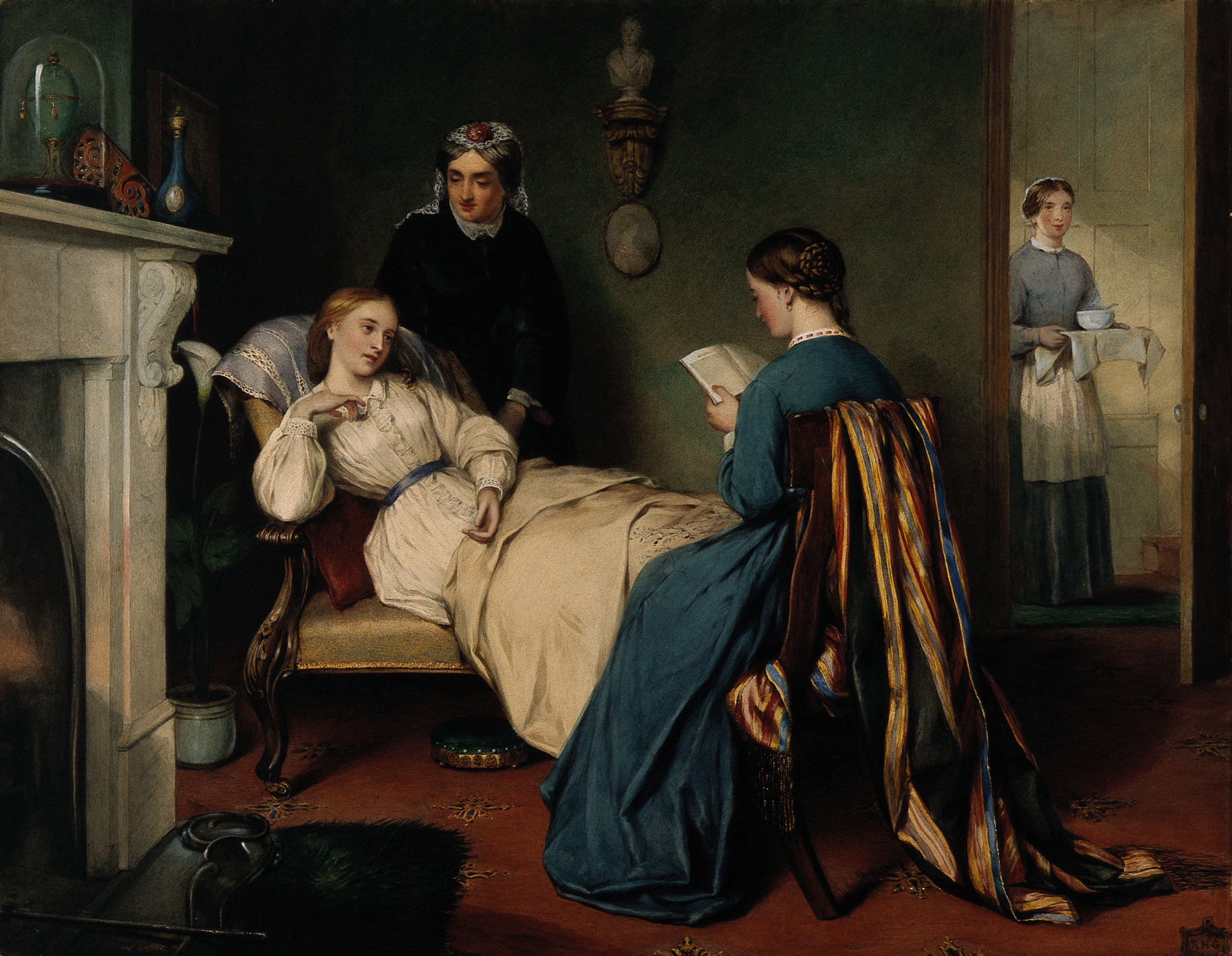 A girl reads to a convalescent while a nurse brings in the patient's medicine. Watercolour by R.H. Giles. Iconographic Collections Keywords: Convalescence; R.H. Giles; Nursing